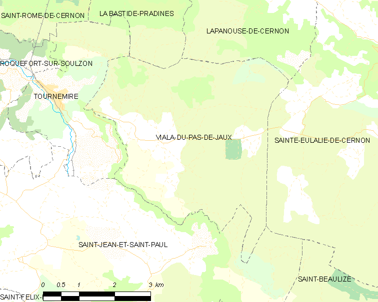 Map commune FR insee code 12295.png - Viala-du-Pas-de-Jaux